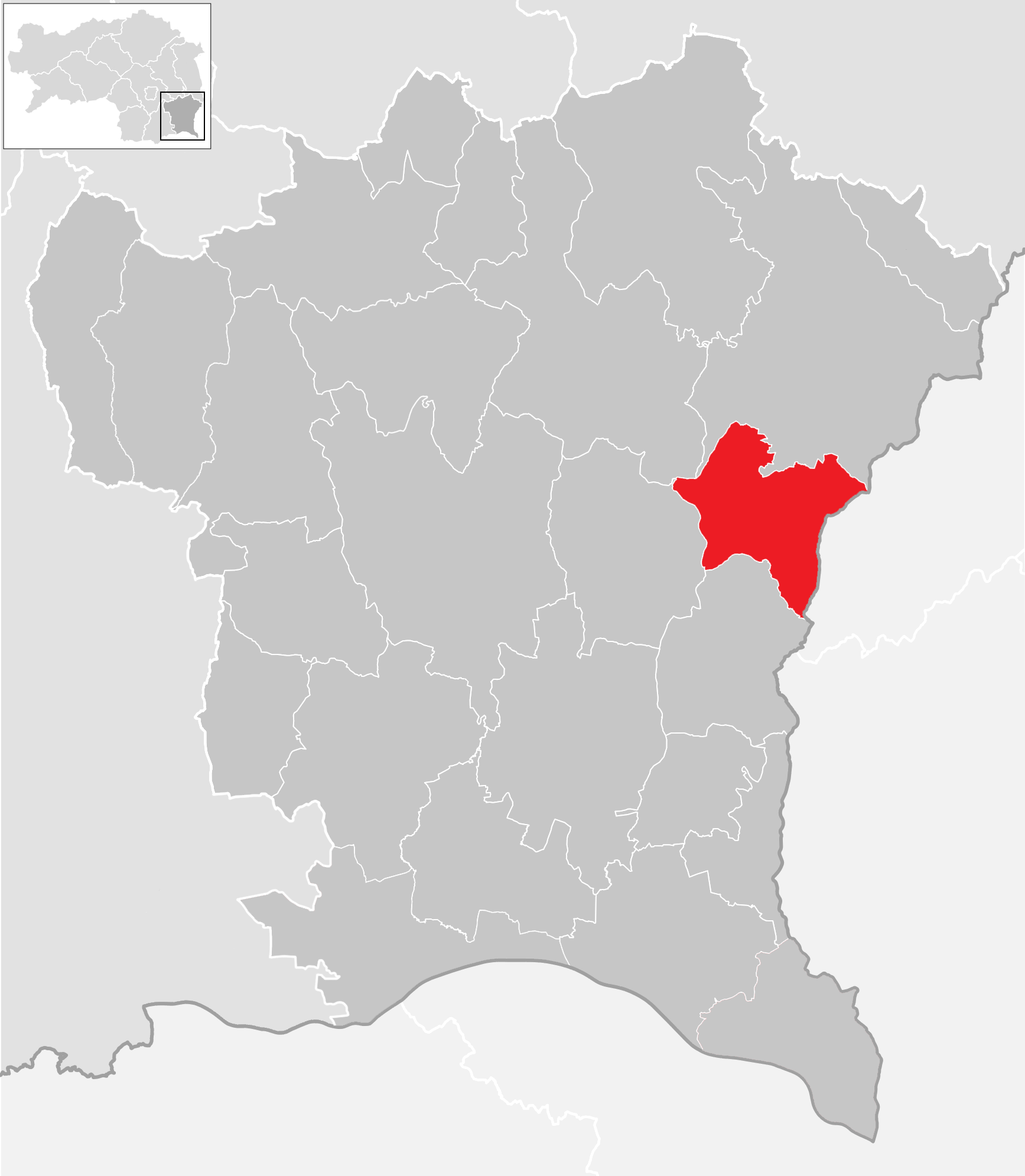 district Südoststeiermark